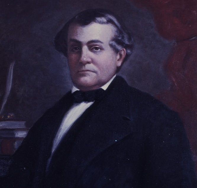 John Isaac Guion, Mississippi Governor